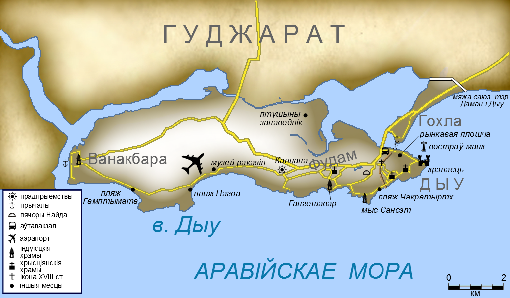 Map of Diu in Belarusian